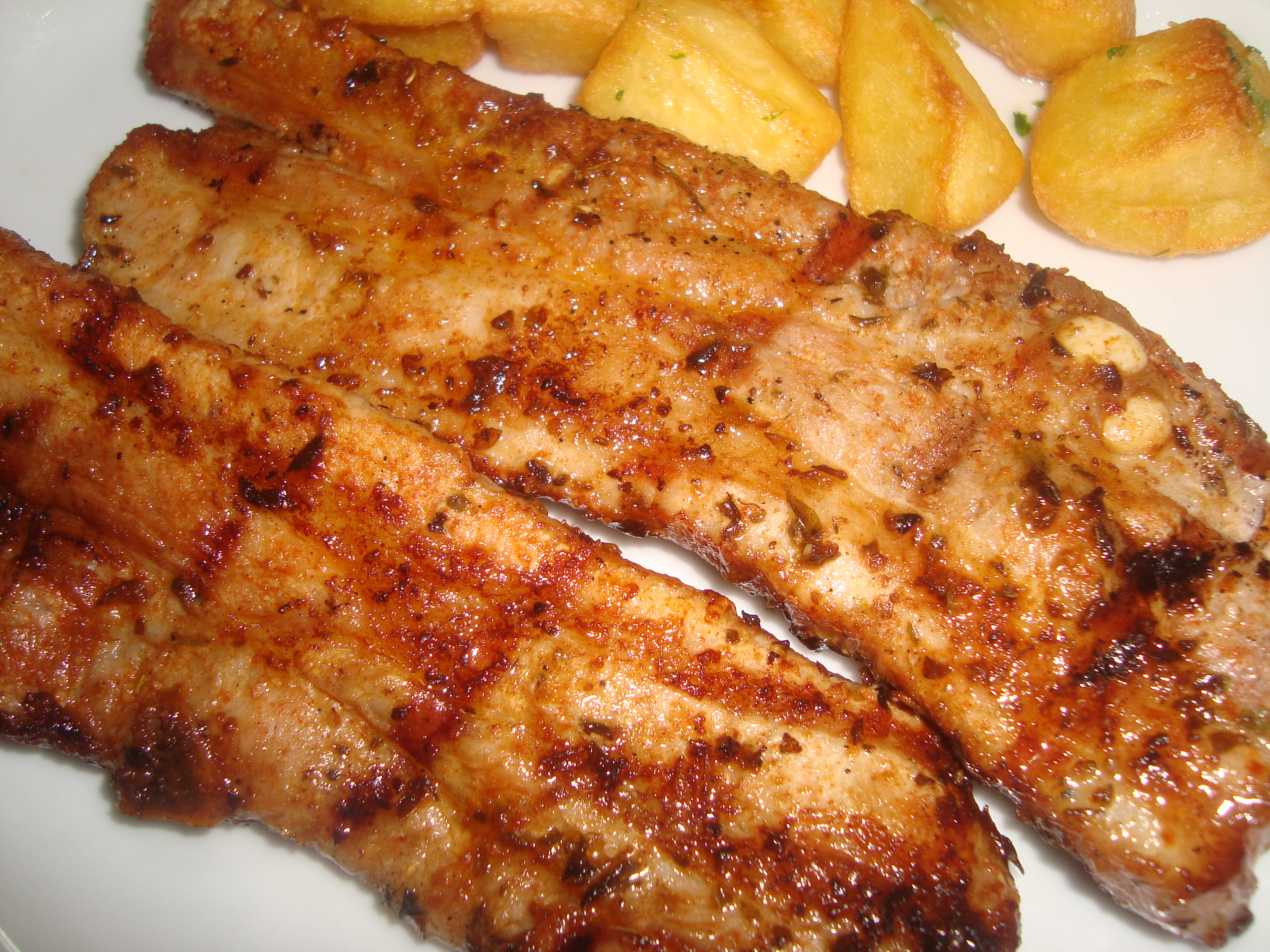 Torreblanca style pork steak